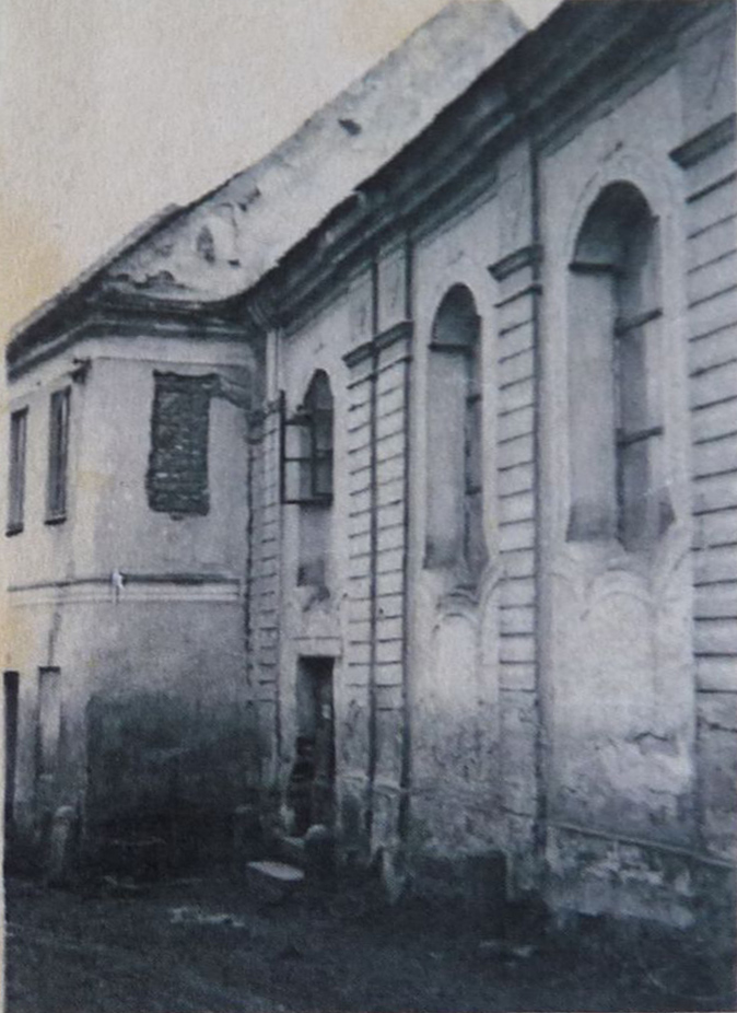 Copy of a photo of the demolished synagogue in Strážov, Klatovy District, Czech Republic.